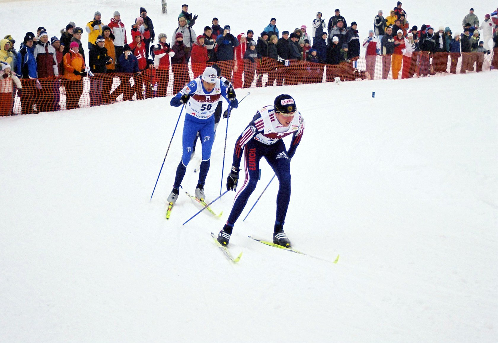 FIS World Cup Cross Country - January 7-8 2006 in Otepää, Estonia Men's 15k Classic XC Vassili Rotchev #51 and Andrus Veerpalu #50